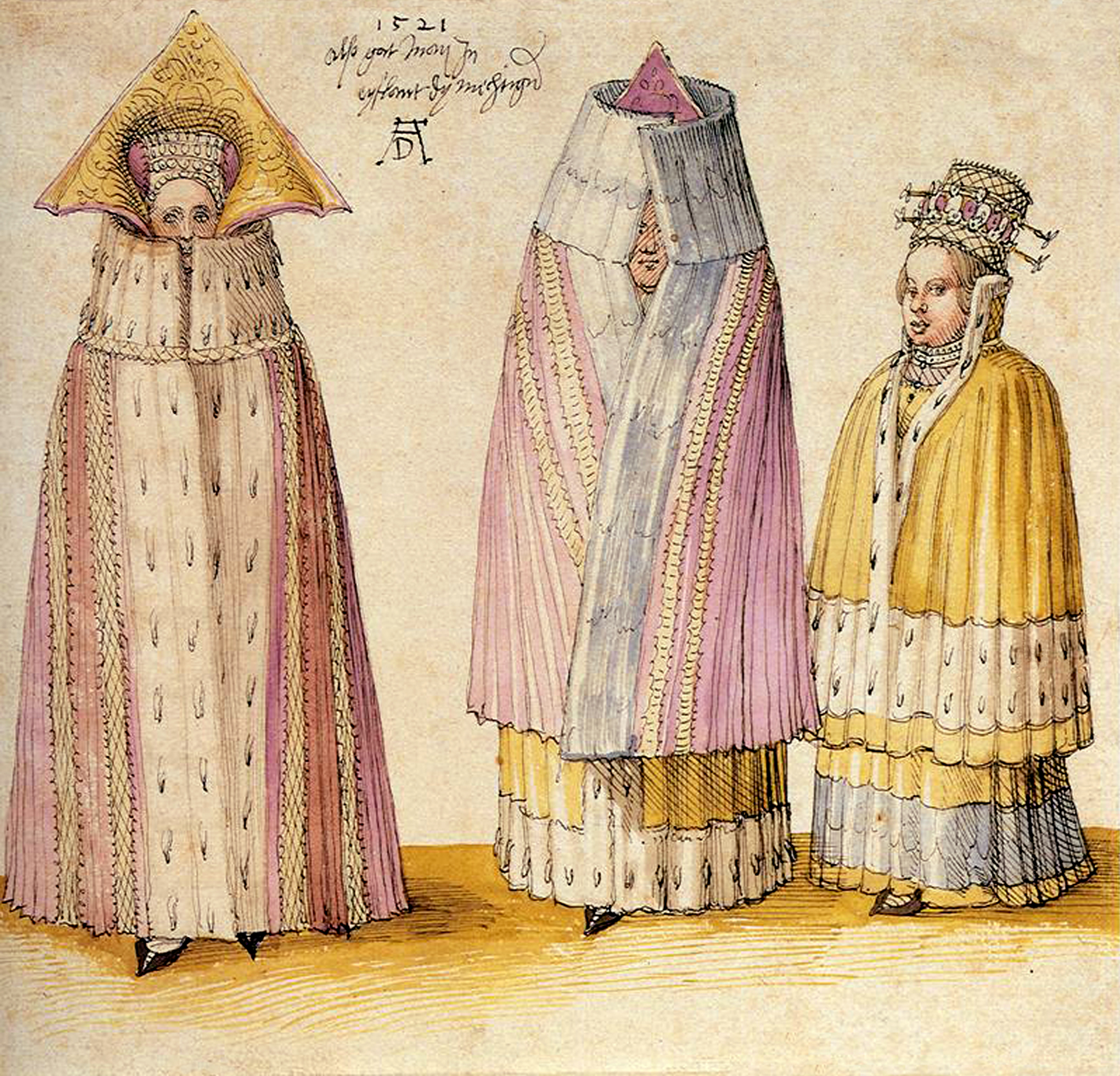 Three Mighty Ladies from Livonia by Albrecht Dürer (1521) watercolour, Paris, Musee du Louvre, Collection Edmond de Rothschild